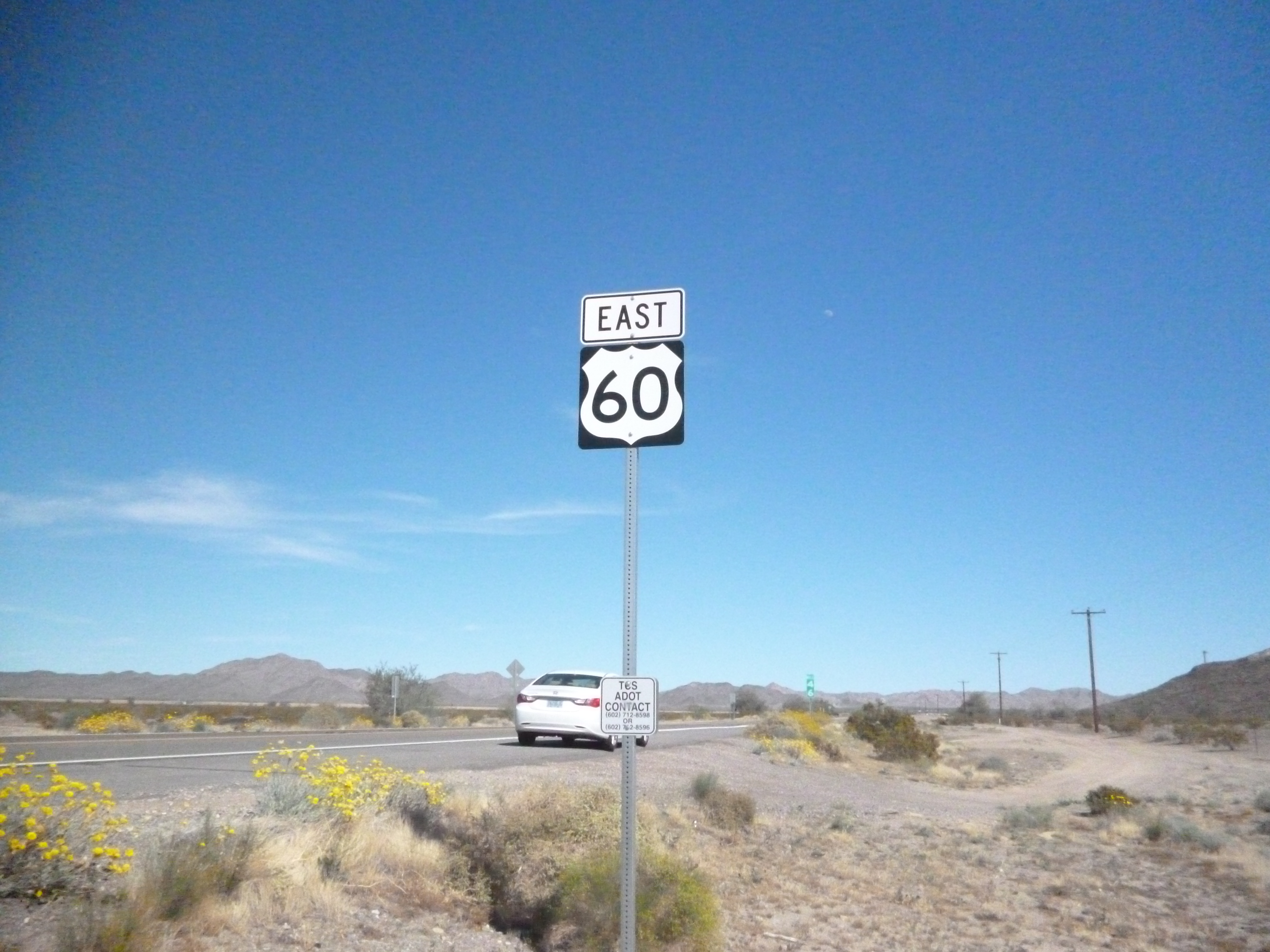 US 60 marker near Salome, Arizona.